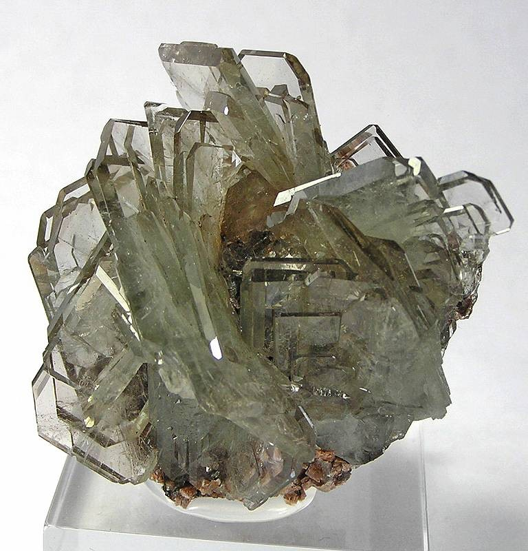 Baryte Locality: Cerro Warihuyn (Huarihuyn), Miraflores, Huamalíes Province, Huánuco Department, Peru (Locality at ) Size: 4.5 x 5 x 3 cm. These glassy, bladed barytes from Peru are about as glorious as barytes could possibly be, from anywhere. The crystals are as clear and lustrous as windows, with razor-sharp edges.